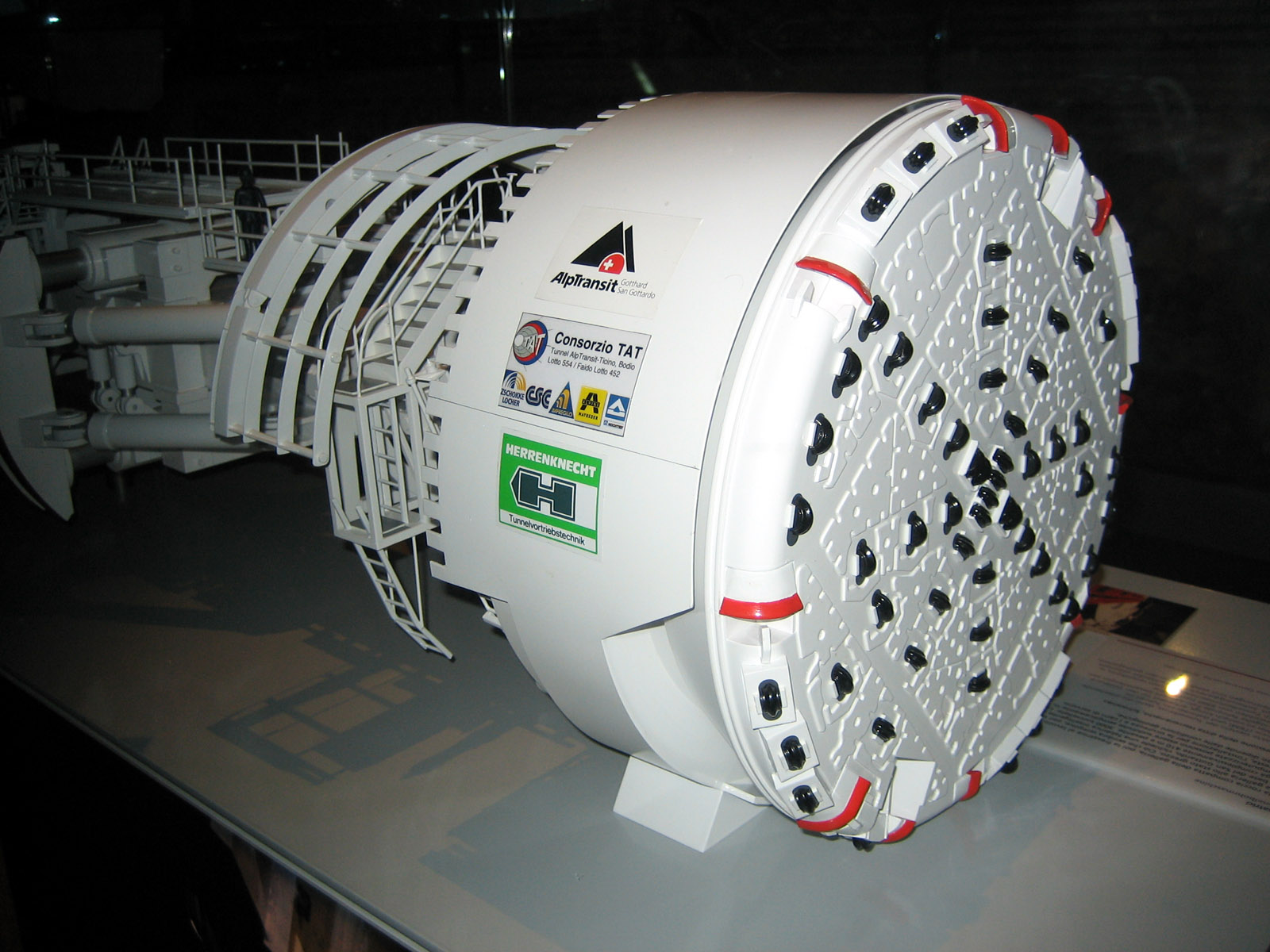 Model of the S-210 Tunnel boring machine used to excavate the southern part of the Gotthard Base Tunnel, Canton Ticino, Switzerland Picture taken at Alptransit Gottardo Sud Visitors Center in Bodio-Pollegio